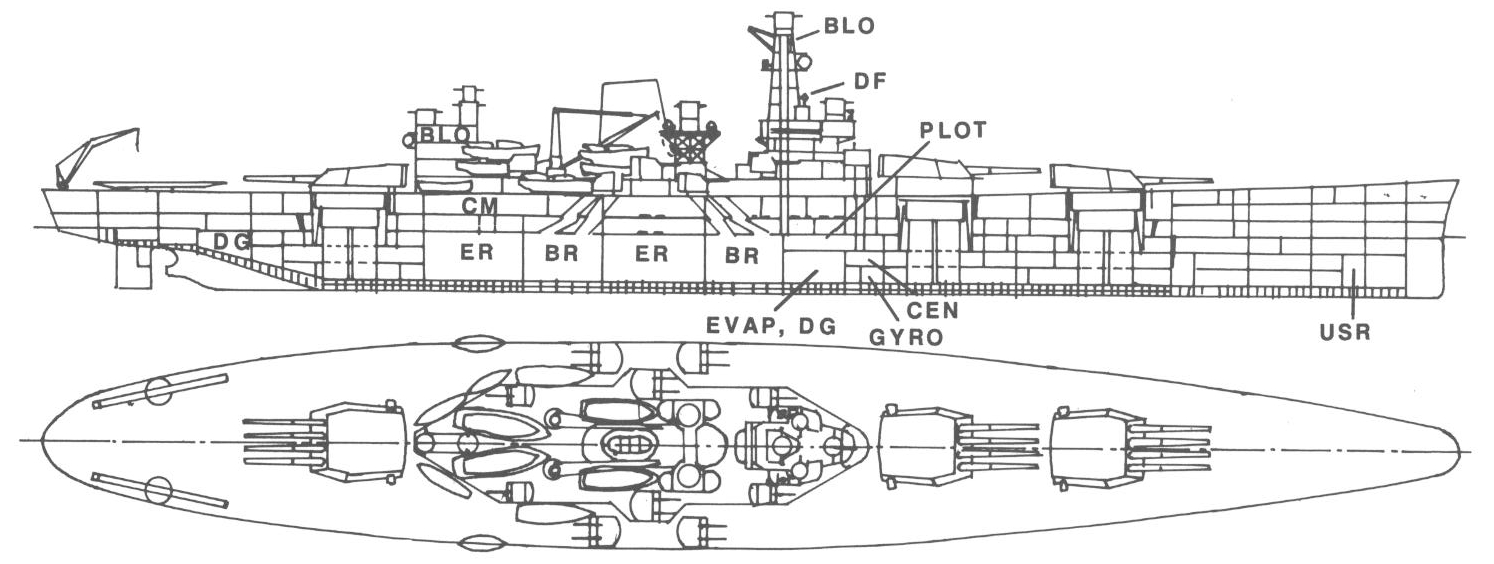 "Scheme XVI, the design actually chosen. Note the single funnel and the mixed secondary battery of single and twin 5in/38 mounts." Friedman, Norman (1985). U.S. Battleships: An Illustrated Design History. Annapolis, Maryland: Naval Institute Press. p. 263. ISBN 0870217151. OCLC 12214729.